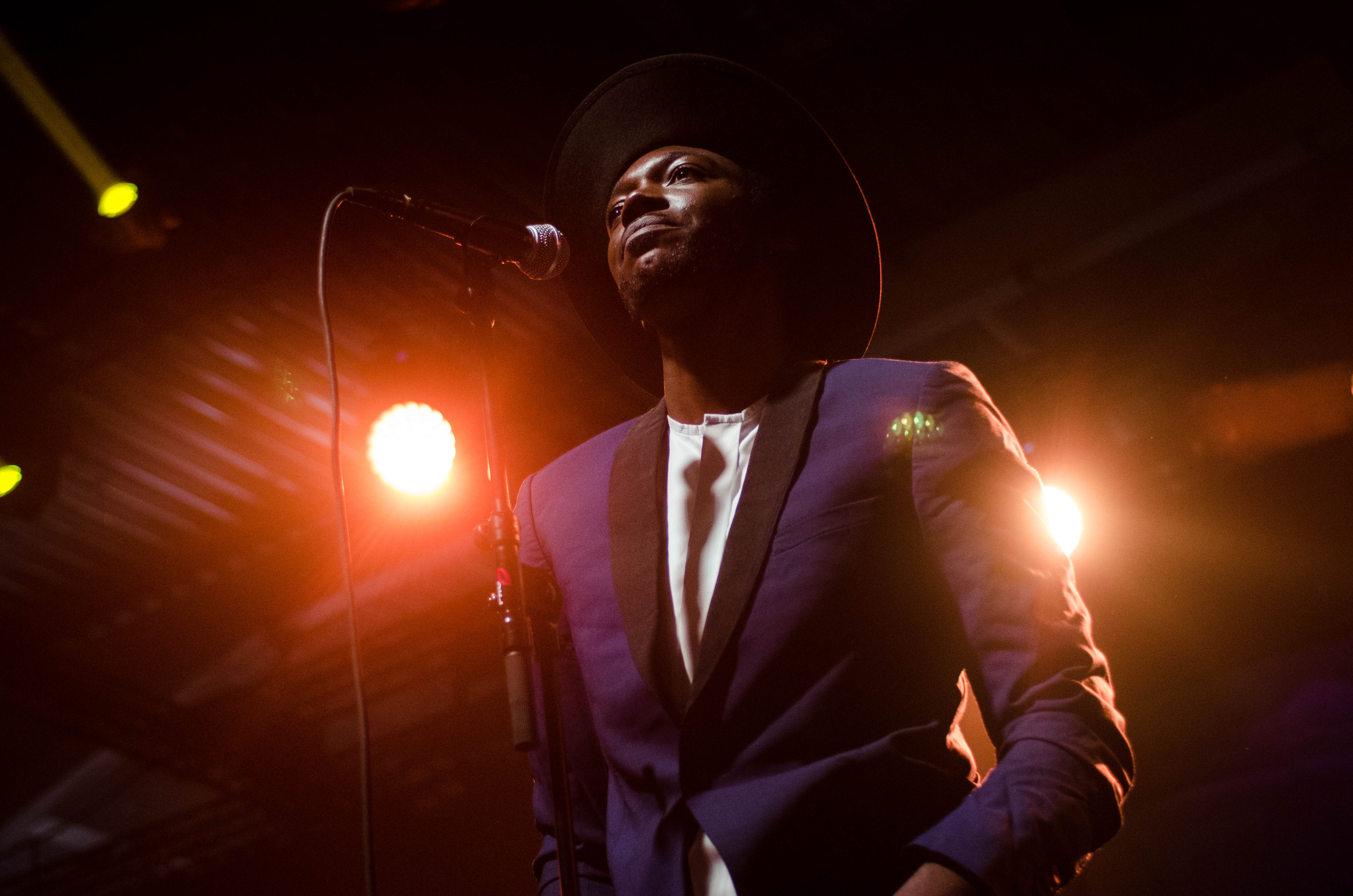 Baloji